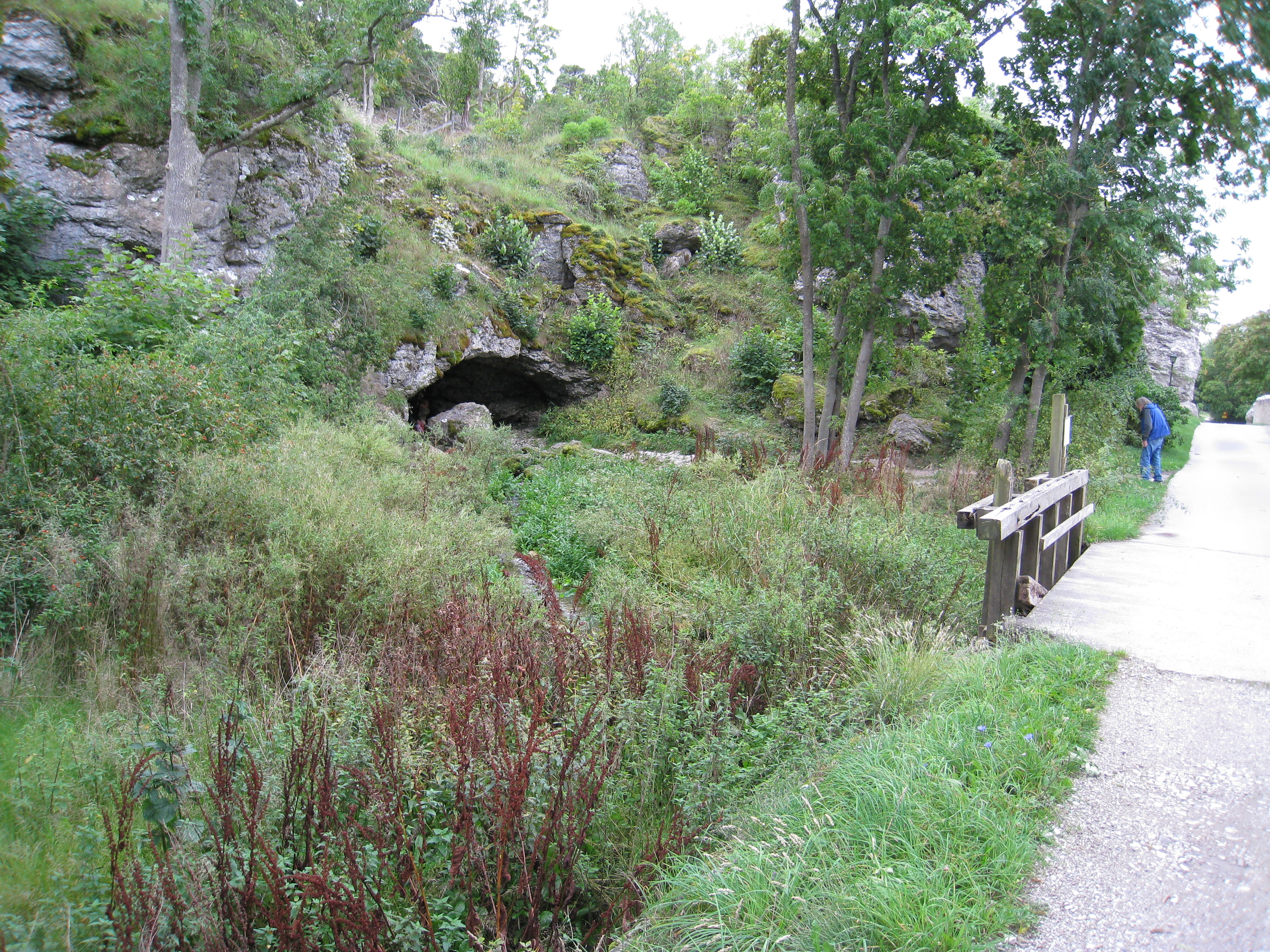 The entrance of Lummelundagrottan (Lummelunda cave)